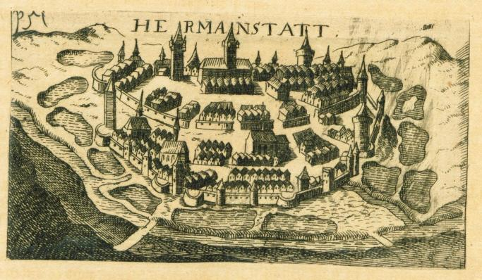 Copper engraving with title Hermanstatt (now Sibiu, Romania), c. 1630